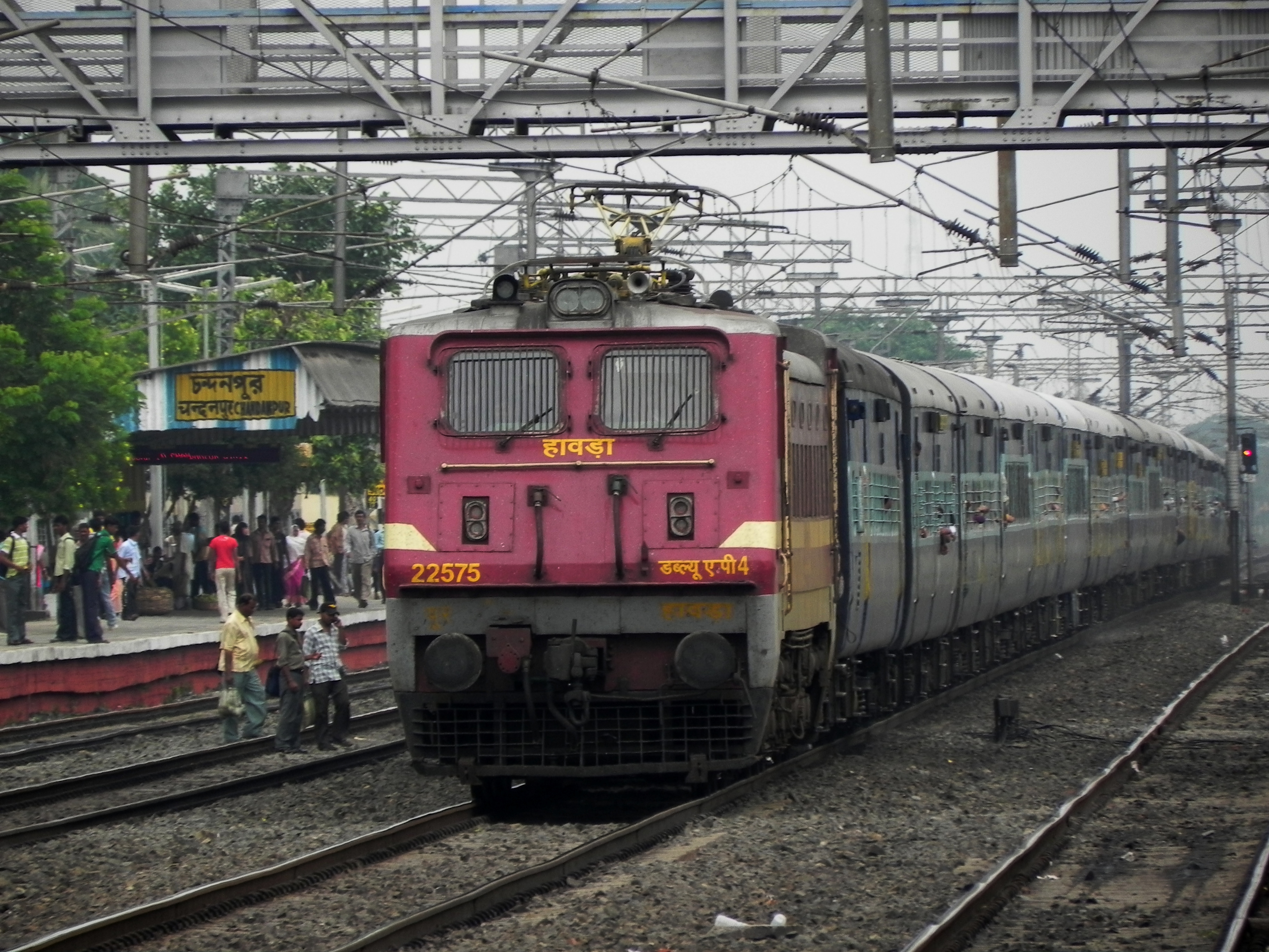 12340 (Dhanbad-Howrah) Coal Field Express with HWH based WAP-4 loco